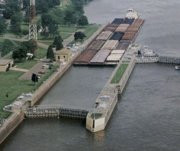 Barges at Upper Mississippi River System (UMRS) Lock and Dam 12 at Bellevue, IA. The lock is 110 feet (34 m) wide by 600 feet (180 m) long; completed in 1938.